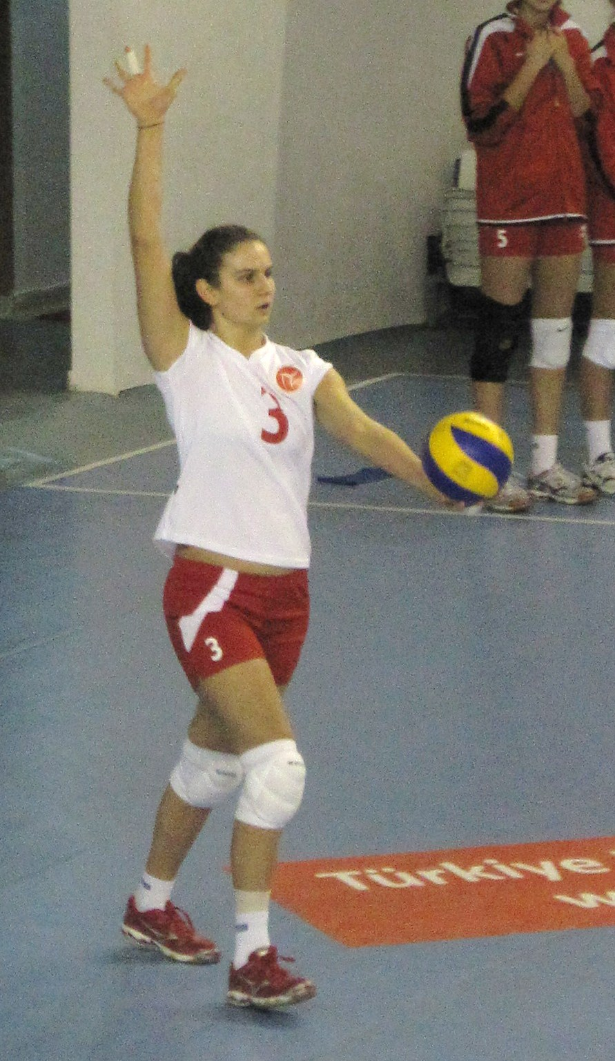 Turkish volleyball player Sabriye Gönülkırmaz when she was 17